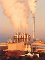 Factory chimneys